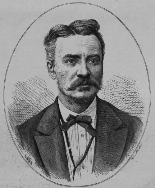 Portrait of Győző Dalmady